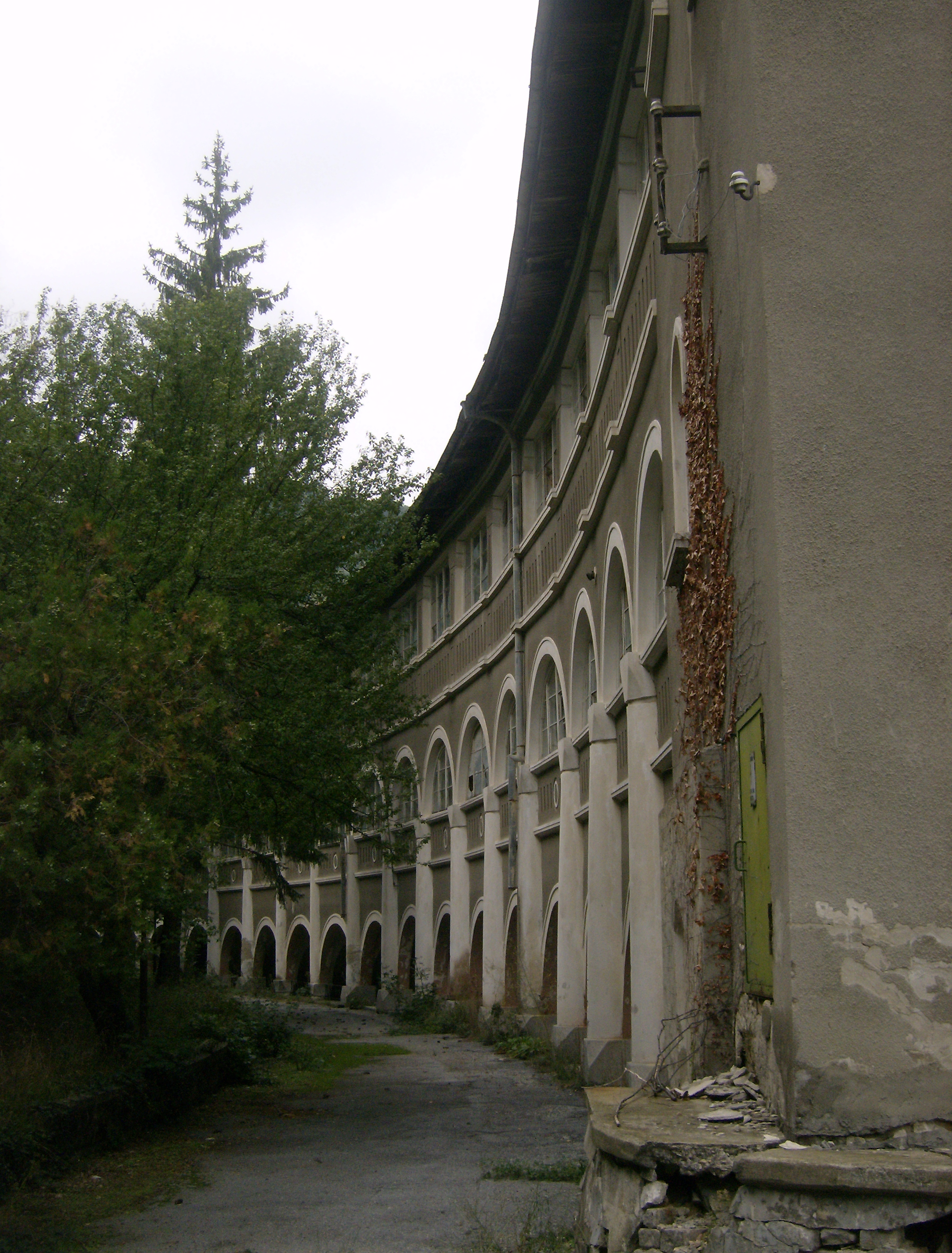 Preslav monastery